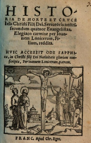 Johannes Lonicerus (1497-1569) History of Jesus Christ's Death and Suffering Iesu Christi Filij Dei: Seruatoris nostri ... (1552)